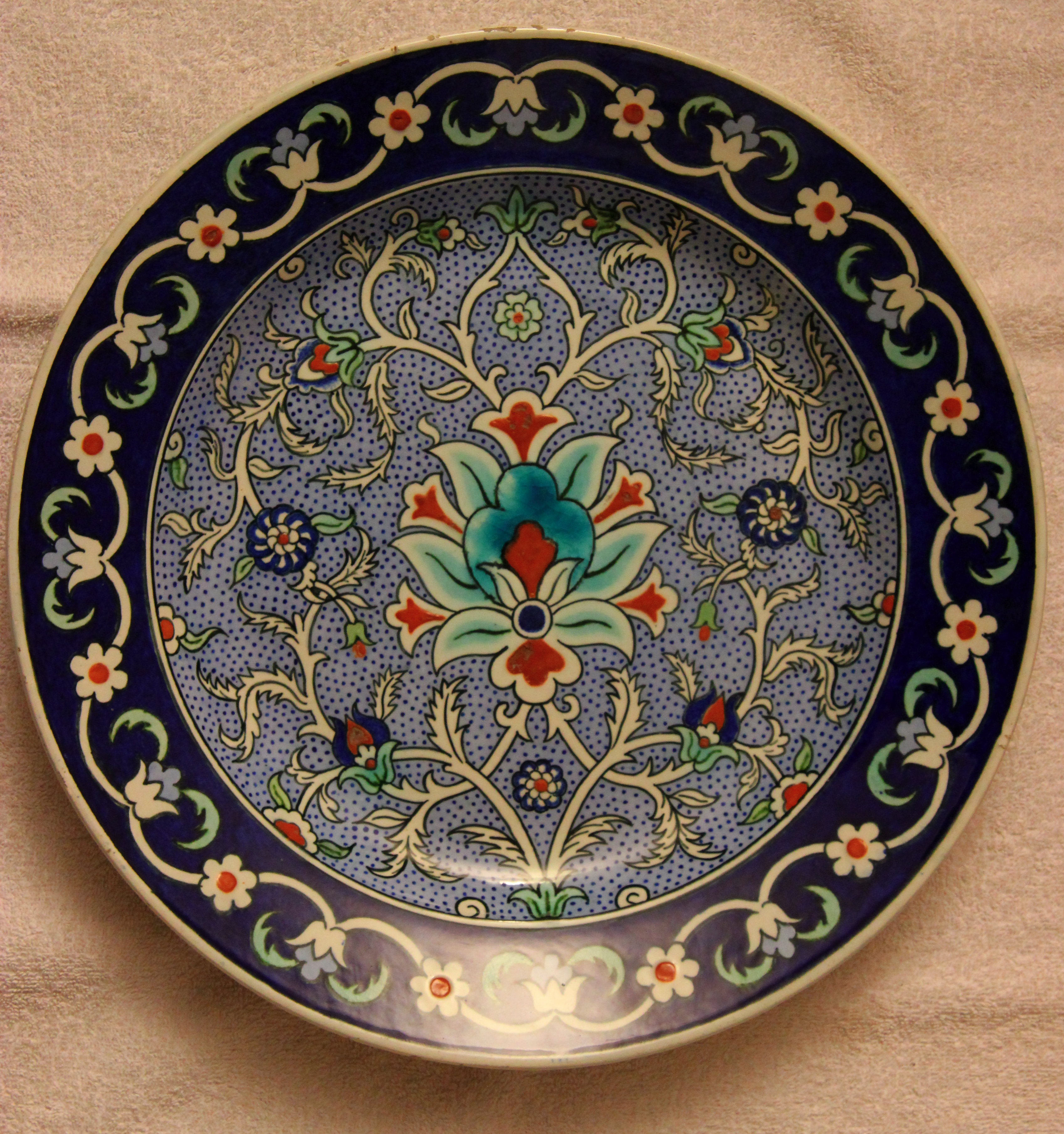 Ceramic work of Pio Fabri